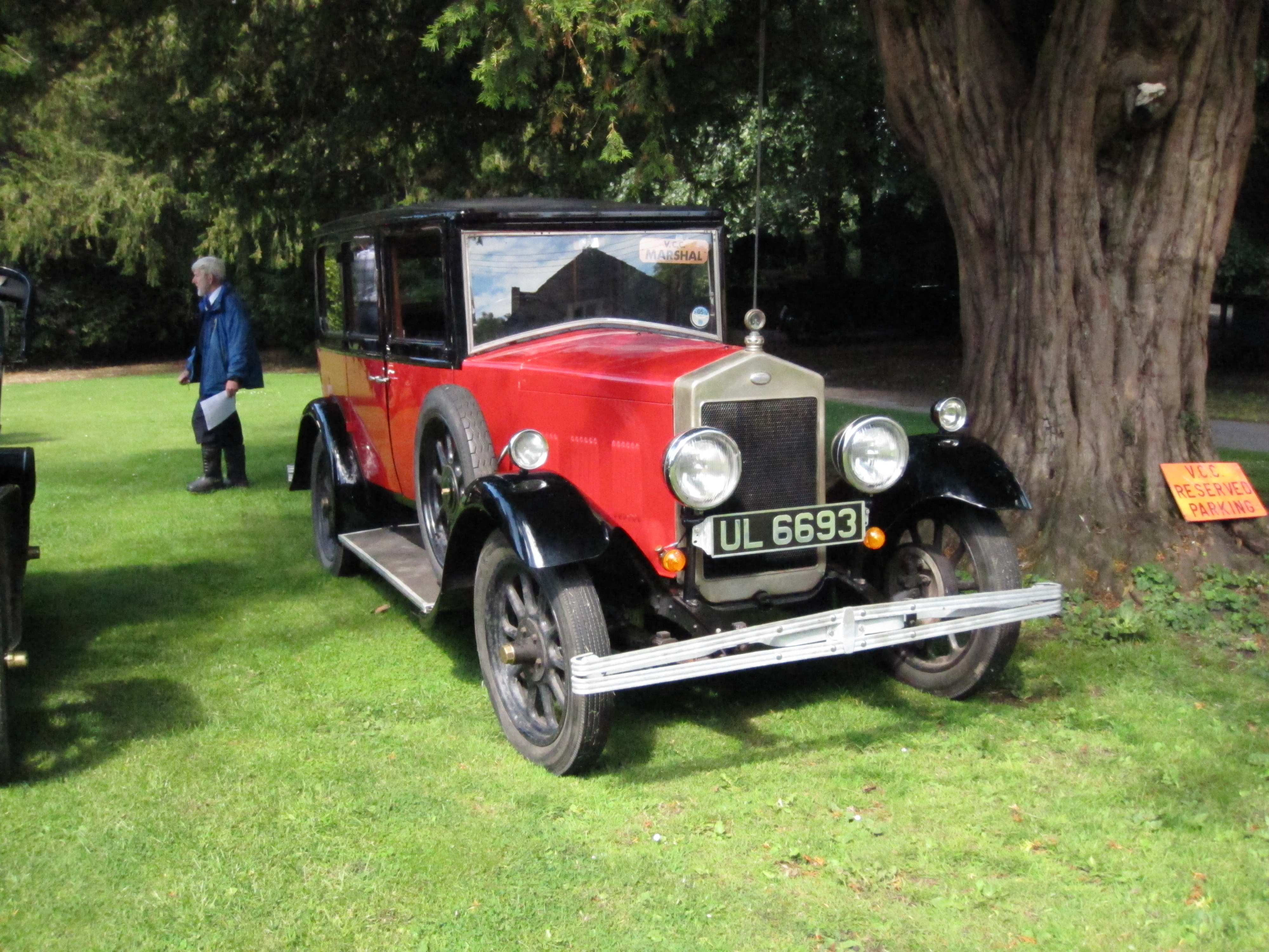 1929 Wolseley 16-45 (DVLA) no record Veteran Car Club of Great Britain Cotswold Caper tour